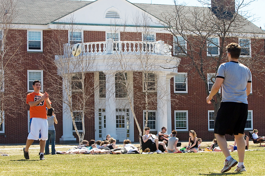 Students enjoying the springtime sun outside Bishops Hall.